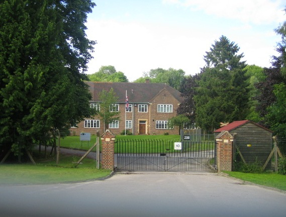 Former RAF Headquarters near Chilmark. This is a former RAF headquarters building in RAF Chilmark, the ammunitions and bombs storage depot that operated in the area of Chilmark Quarries south of the village of Chilmark from 1937 to 1995, see 905805. The road in the foreground is the unclassified road that runs between Chilmark and Ham Cross. The building is now used by ISSEE (the International School for Security and Explosives Education)